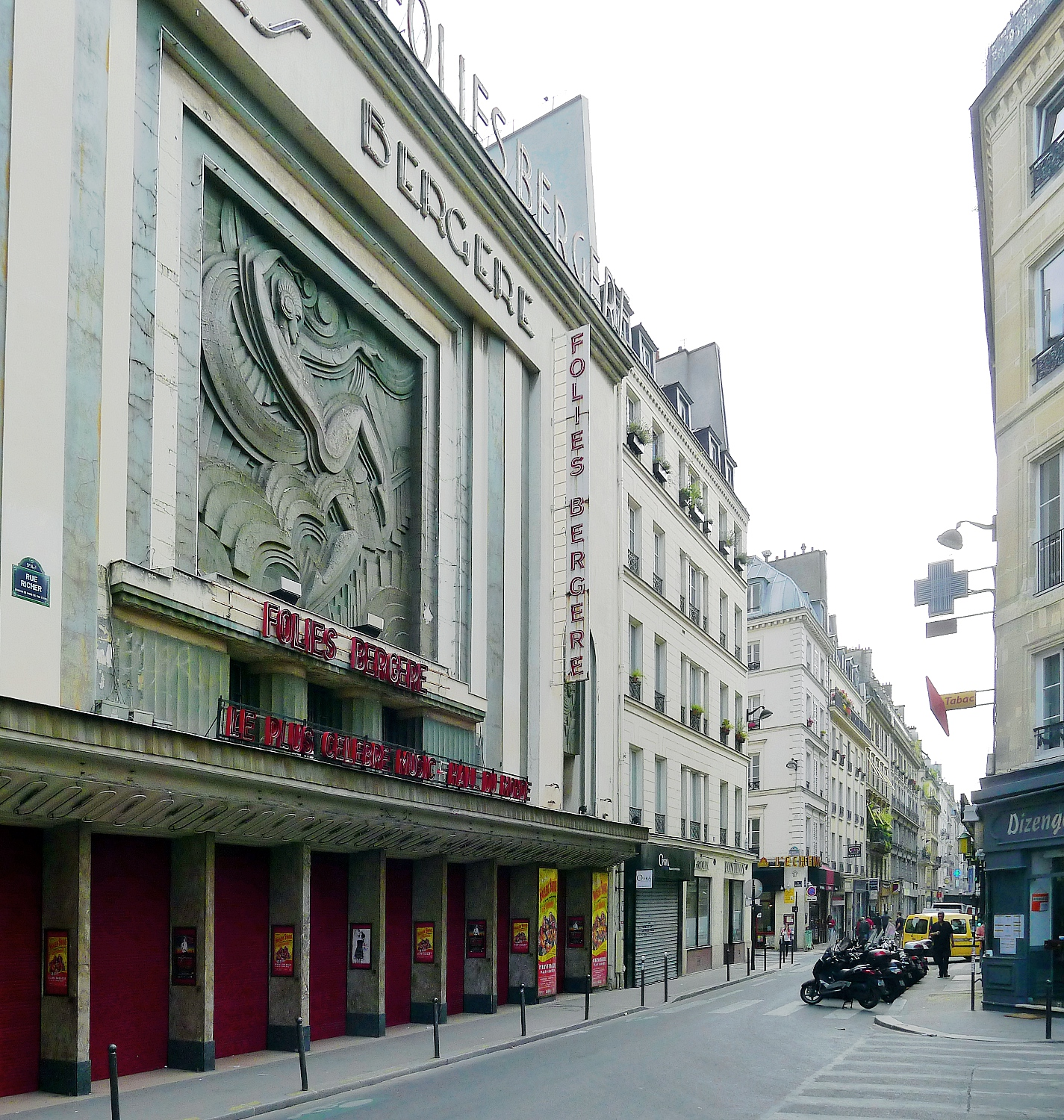 Richer street (Folies Bergères) - Paris